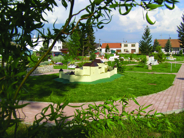 Branc Castle